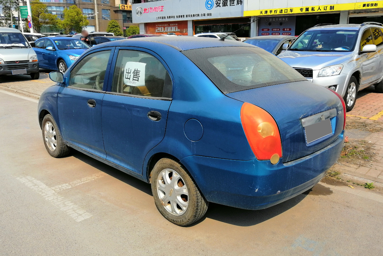 Chery QQ6 photographed in Hefei, Anhui province, China.